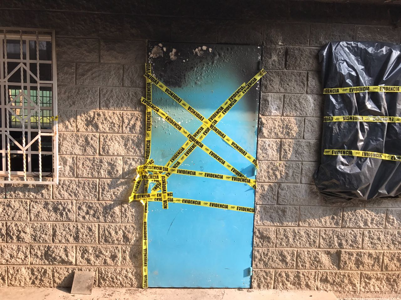 The Inter-American Commission on Human Rights (Comisión Interamericana de los Derechos Humanos) visits Guatemala following the fire at Hogar Seguro Virgen de la Asunción in March 2017.